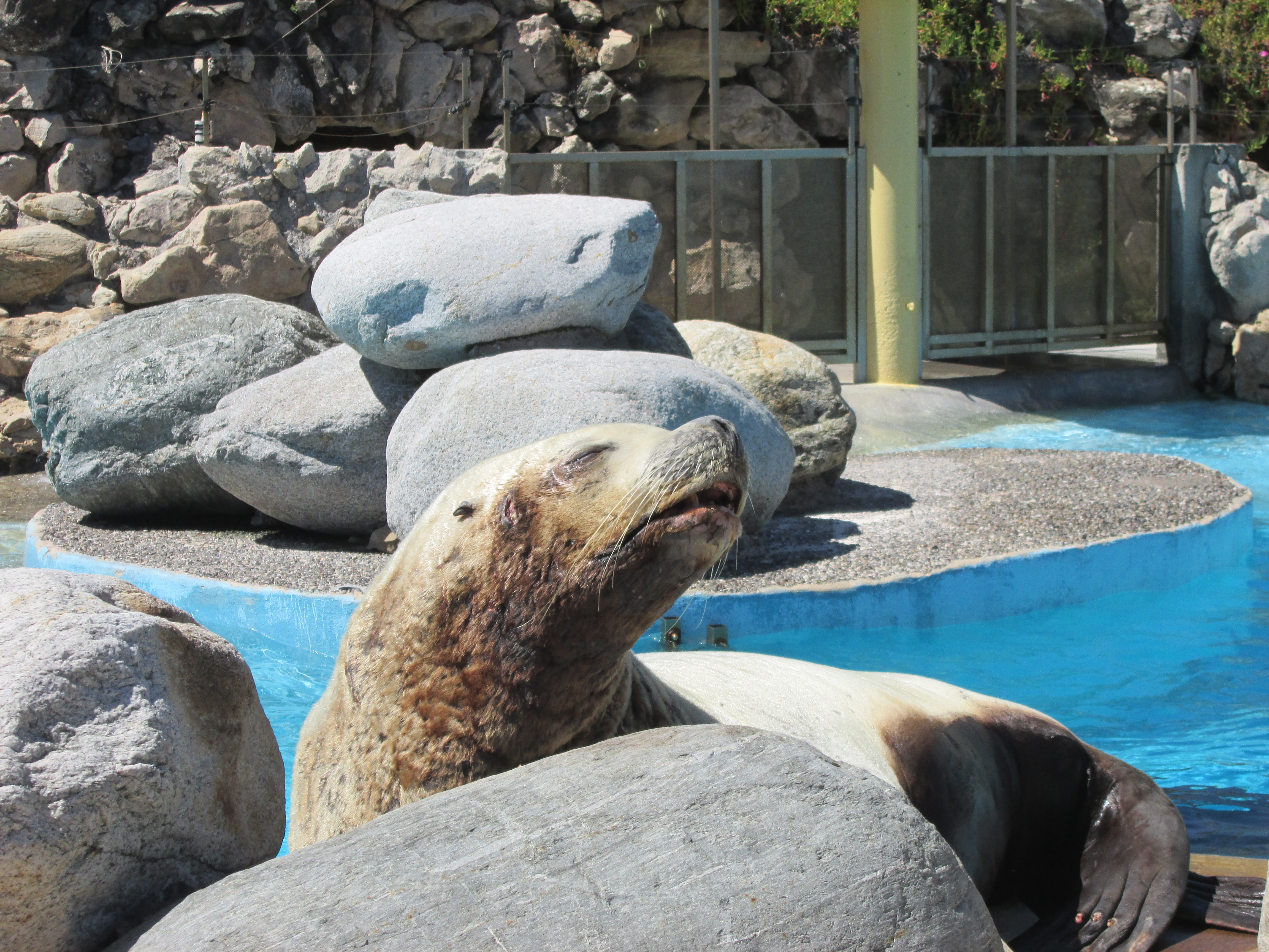 Sea Lion at Marineland of Antibes FRANCE